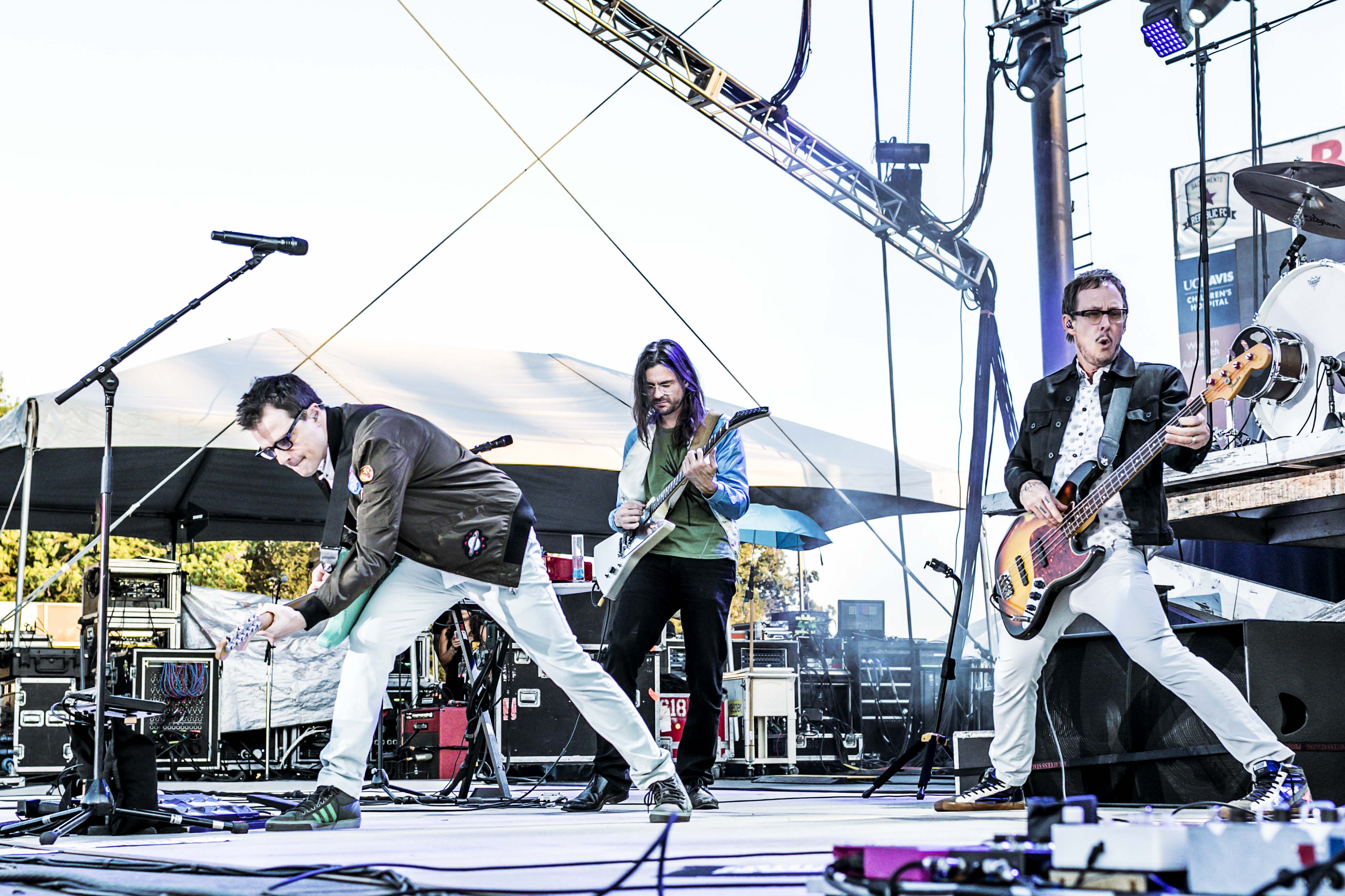 Weezer, City of Trees, 2016